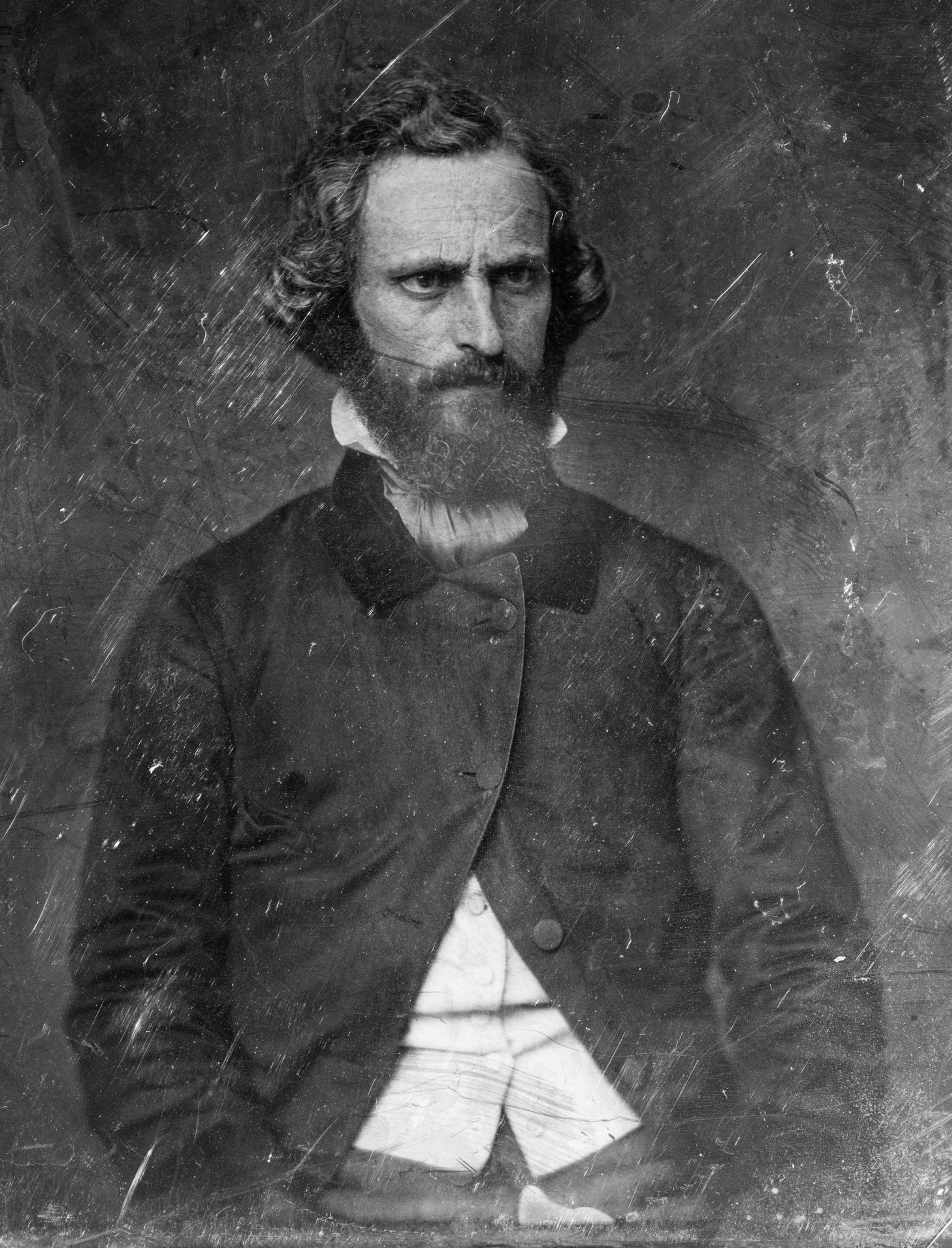 Clement Claiborne Clay, United States Senator from Alabama.